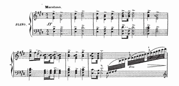 Opening bars of the prelude to Le roi malgré lui by Chabrier from the 1891 vocal score.